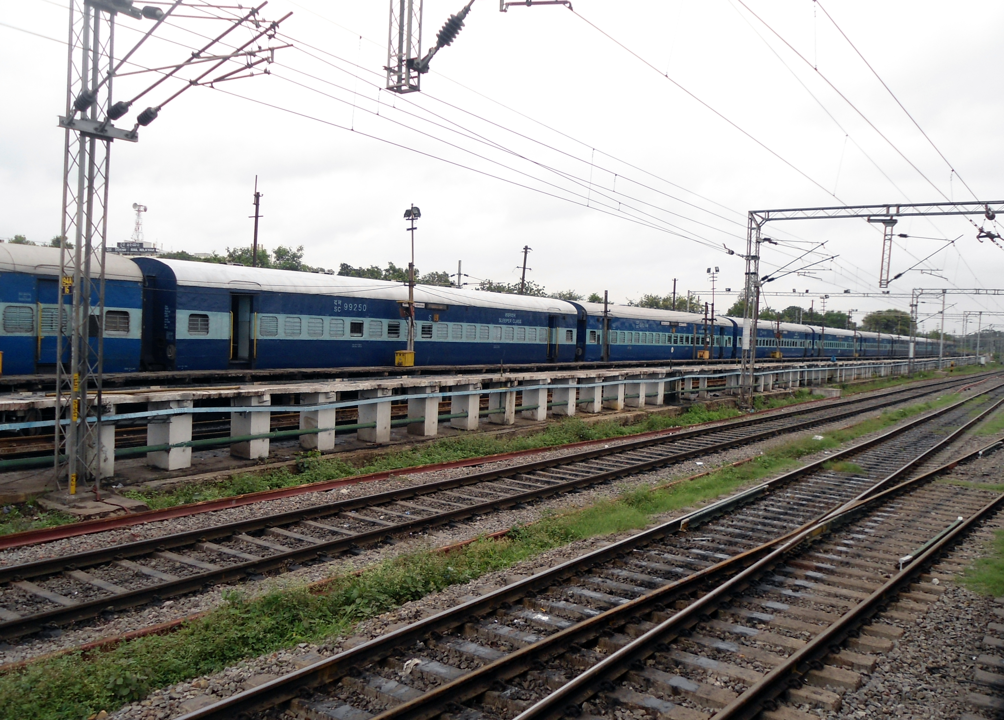 Visakha Express at Yard, Secunderabad Railway Station